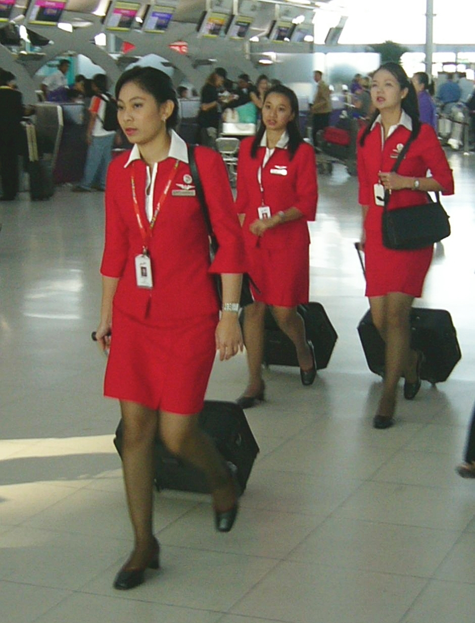 Female flight attendants of an unknown Asian airline, seen at Suvarnabhumi International Airport (Thailand).